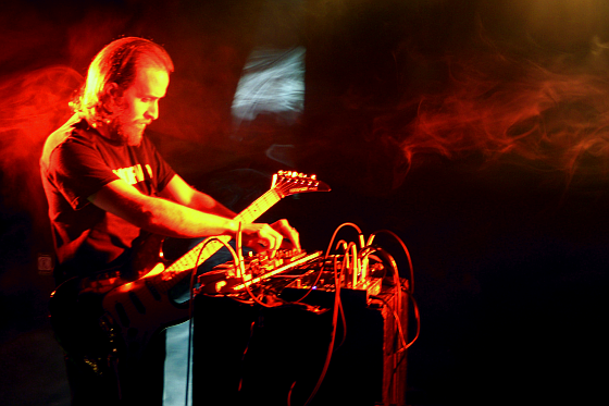 (@ Loppen, Christiania, Copenhagen, Denmark) Aidan Baker is the founder and main guy behind Nadja. That night he played solo and then in Nadja (with Leah Buckareff). Both sets where nice and moody and filled with texture and heaviness, and also remarkably different which is a good thing.